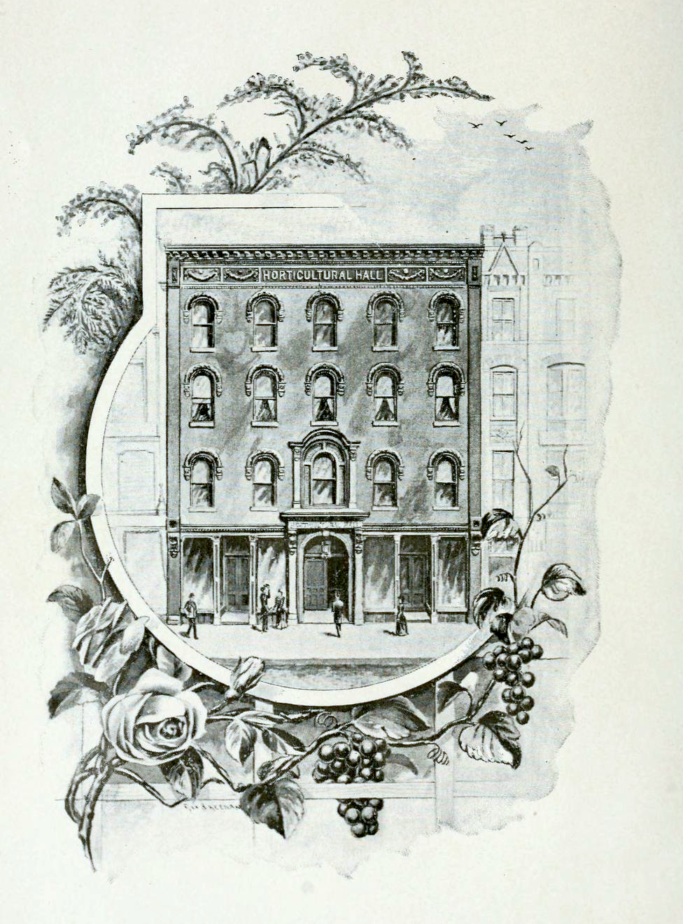 Illustration of the Worcester County Horticultural Society's former headquarters at 16-20 Front Street, Worcester, MA, known as "Horticultural Hall". This building, occupied by the Society from 1851 to 1928, was razed in the 20th century.